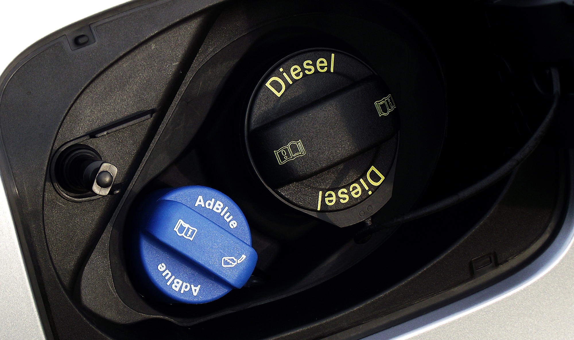 2015 Audi Q3 2.0 TDI quattro Facelift Type 8U AdBlue